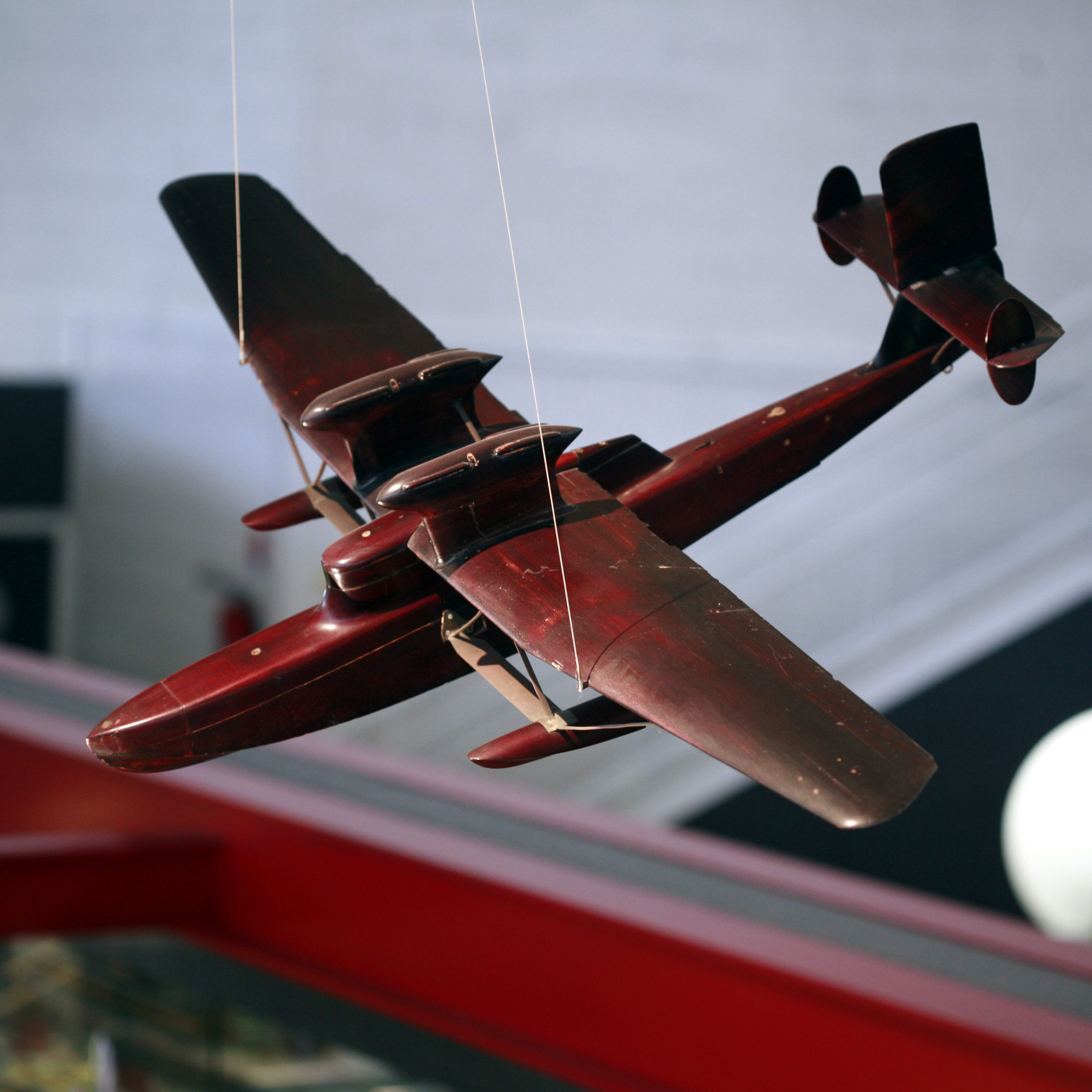 Wind tunnel model of a Loire 102 seaplane. On display at the Écomusée de Saint-Nazaire.